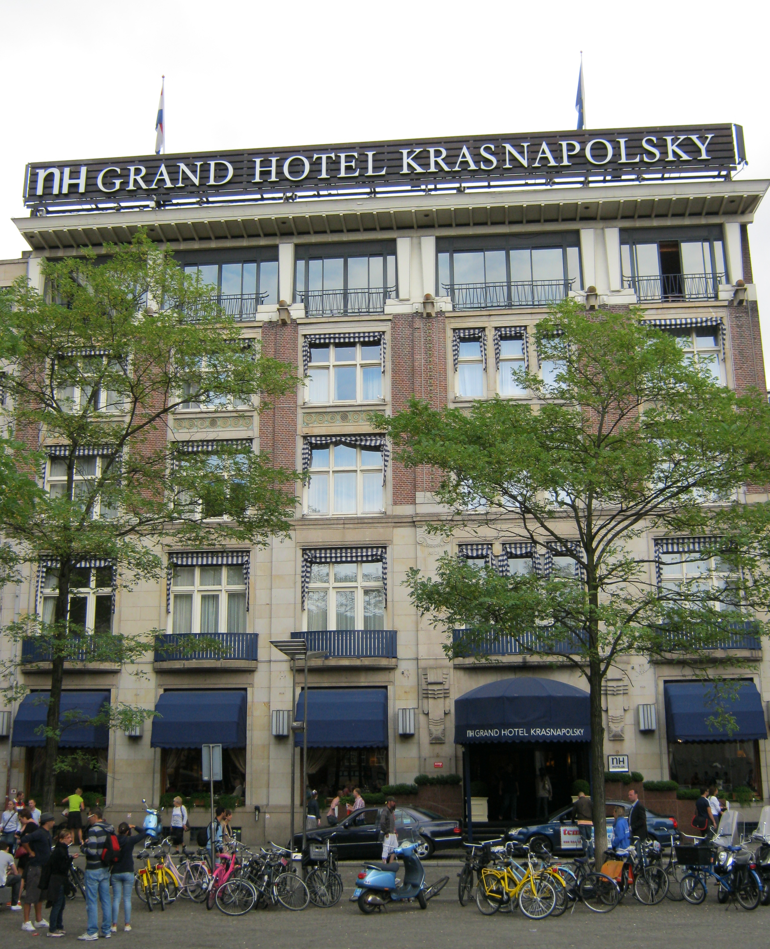 NH Grand Hotel Krasnapolsky in Amsterdam